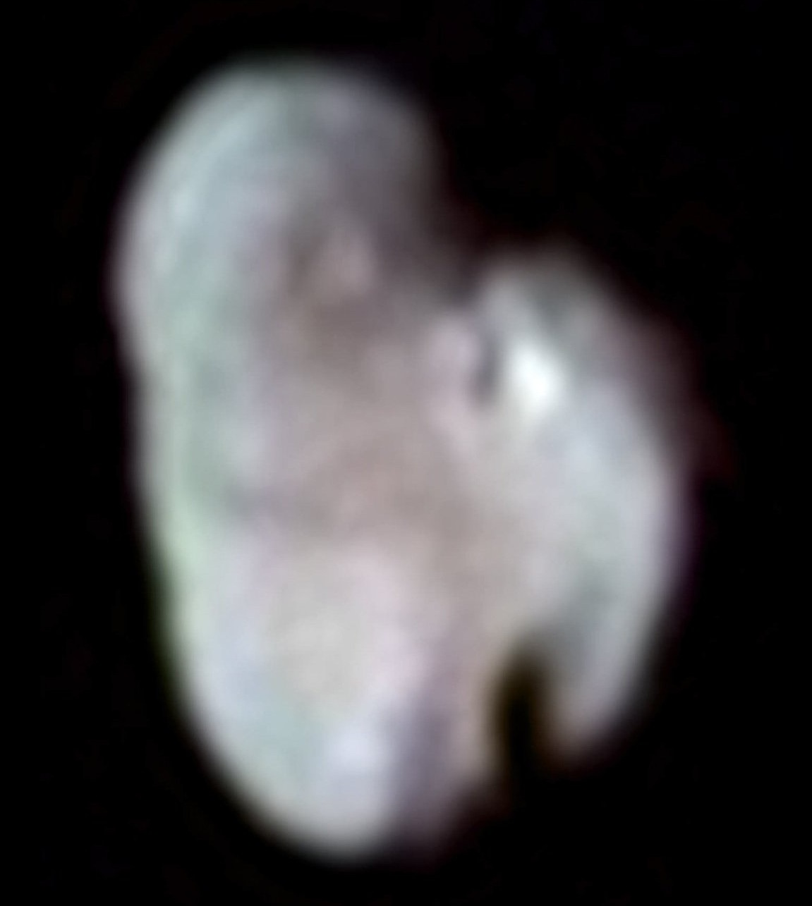 Color image of Hydra, image create using high resolution LORRI image and MVIC color data.